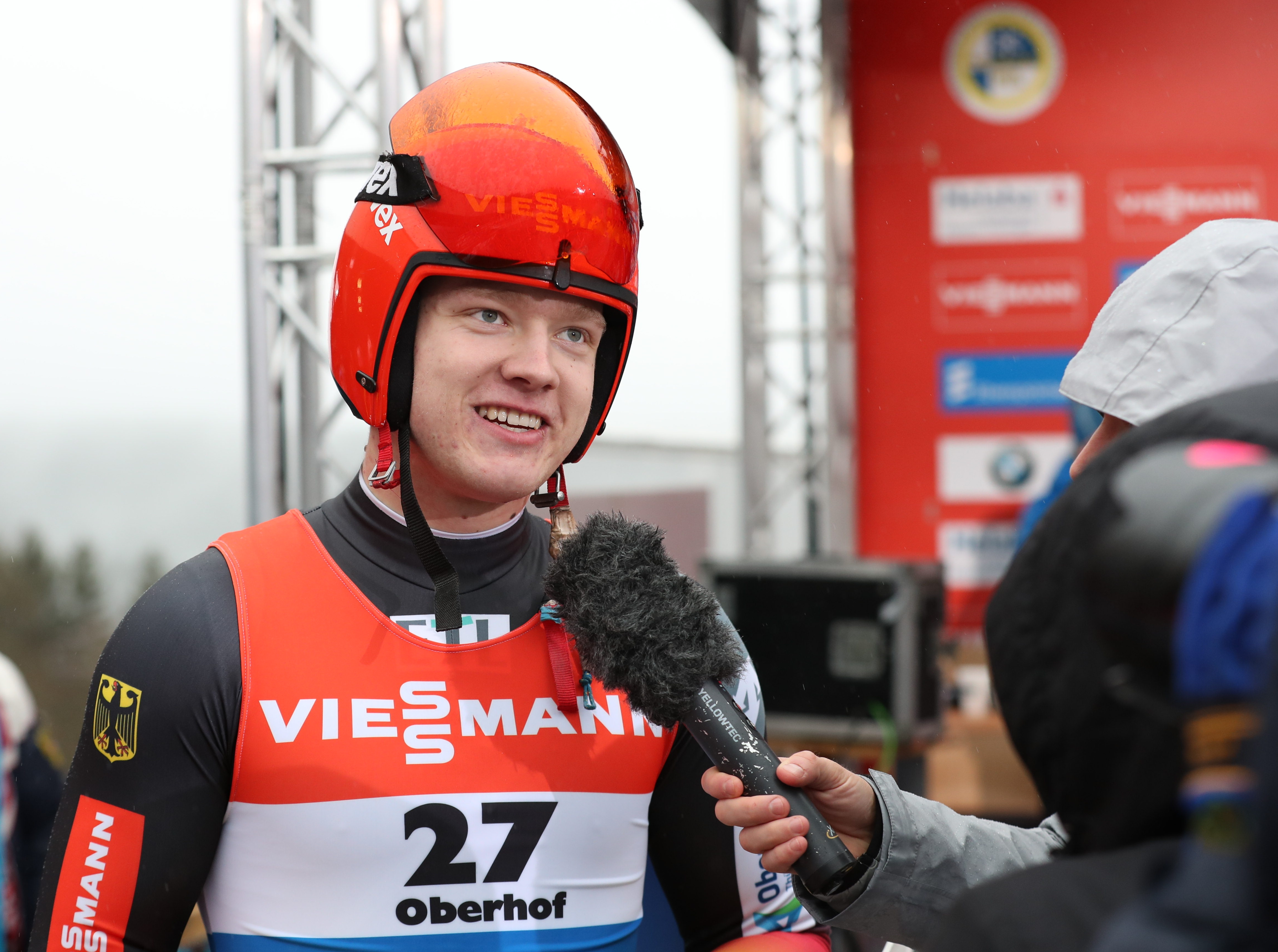 Men's World Cup at the 2019/20 Oberhof Luge World Cup